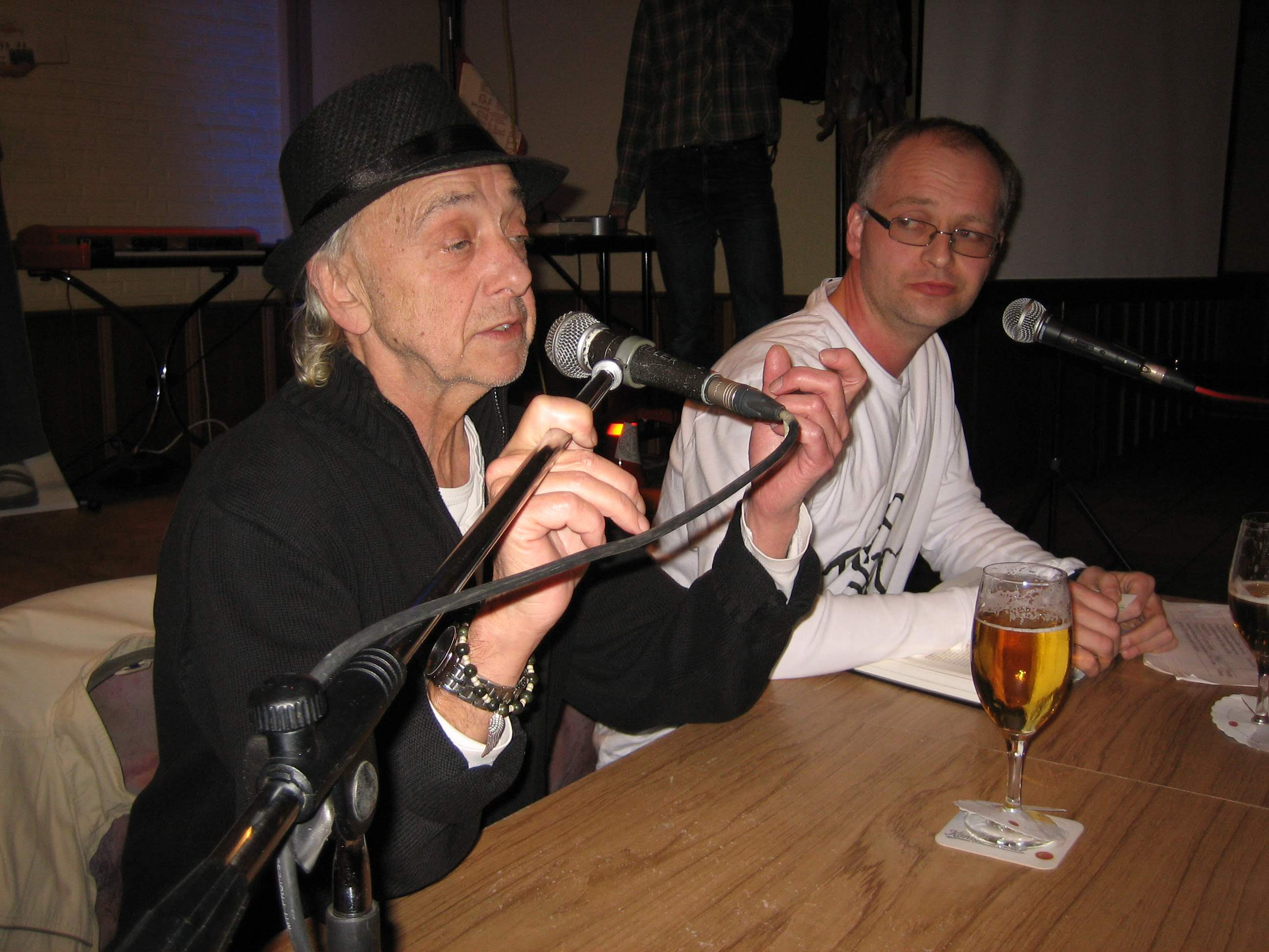 Peter Behrens & Klaus Marschall